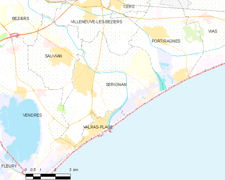 Map commune FR insee code 34299.png - Sérignan